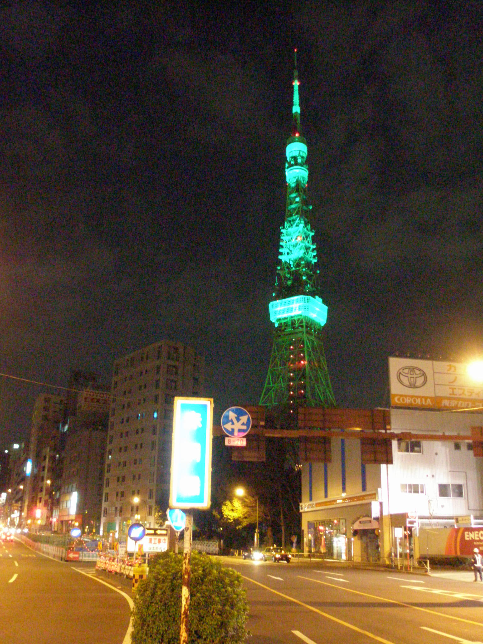 Saint Patrick's Day reference ([1] [2])